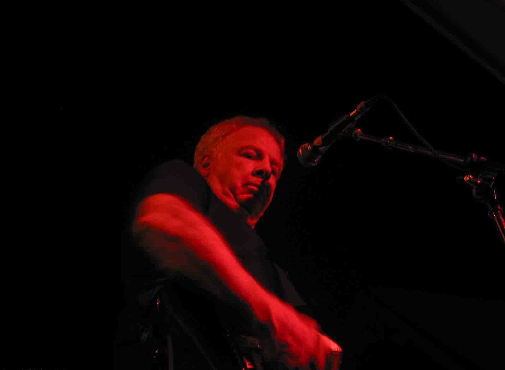 Mayo Thompson, live with the Red Crayola (Münster, 05/05/05)